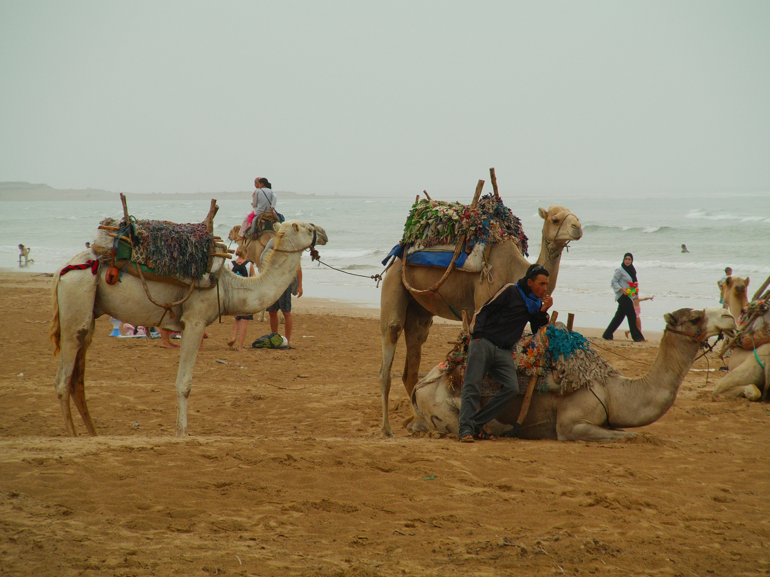 Dromedaries on the beach of Essaouira Bay, Morocco